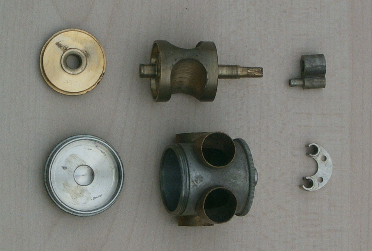 Dismantled rotary valve